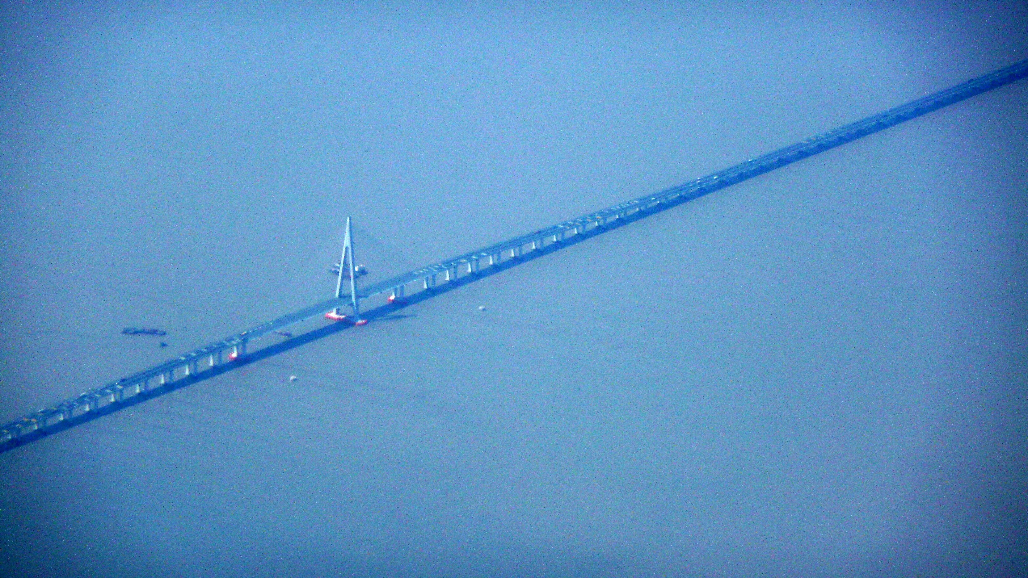 Hangzhou Bay Bridge